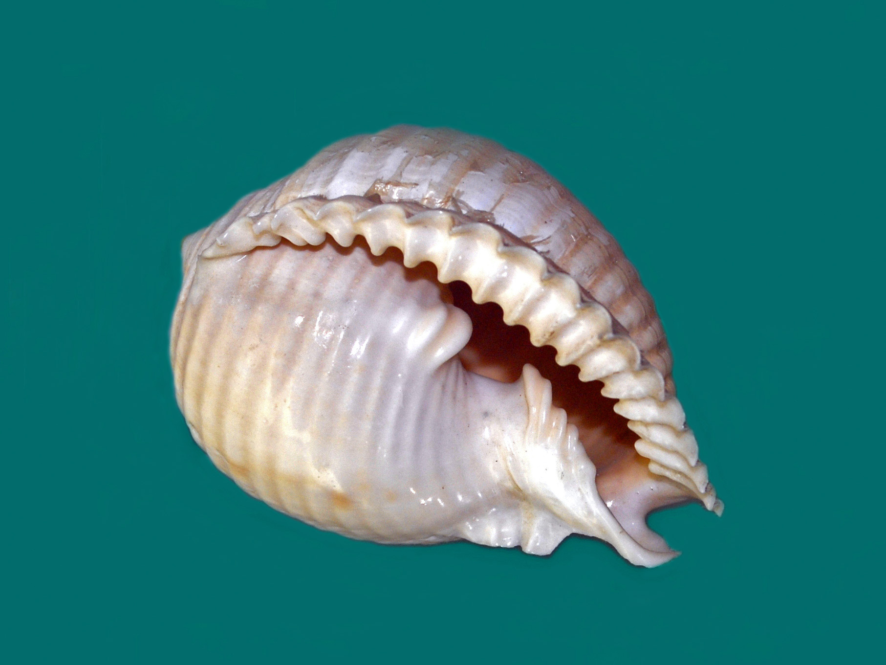 A shell of Malea ringens, on display at the Museo Civico Craveri di Scienze Naturali - Bra